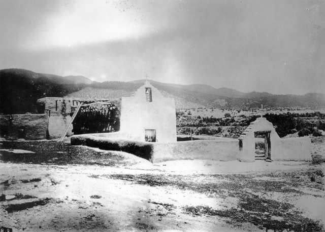 Picuris mission, circa 1915